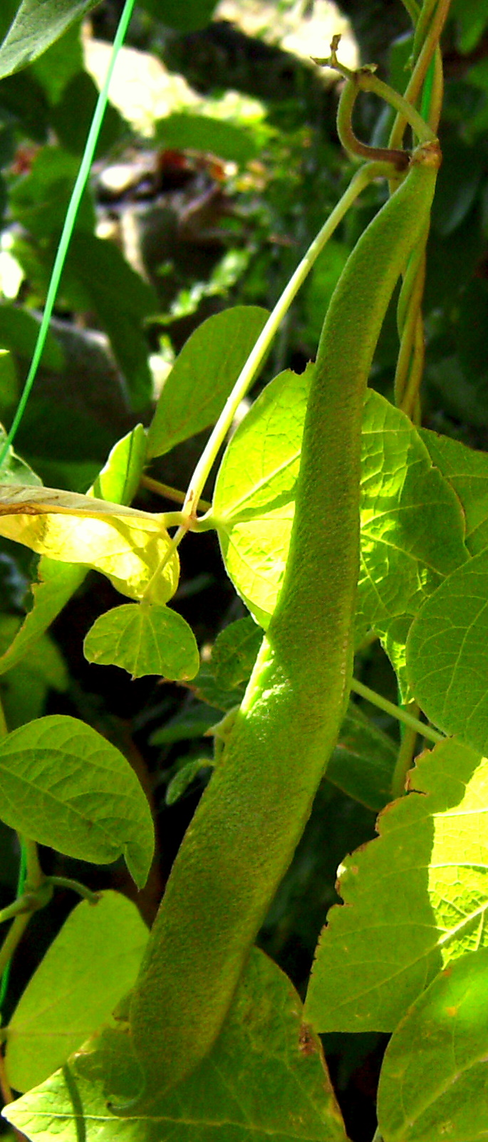 Pod of red bean (Phaseolus coccineus), Castelltallat, Catalonia